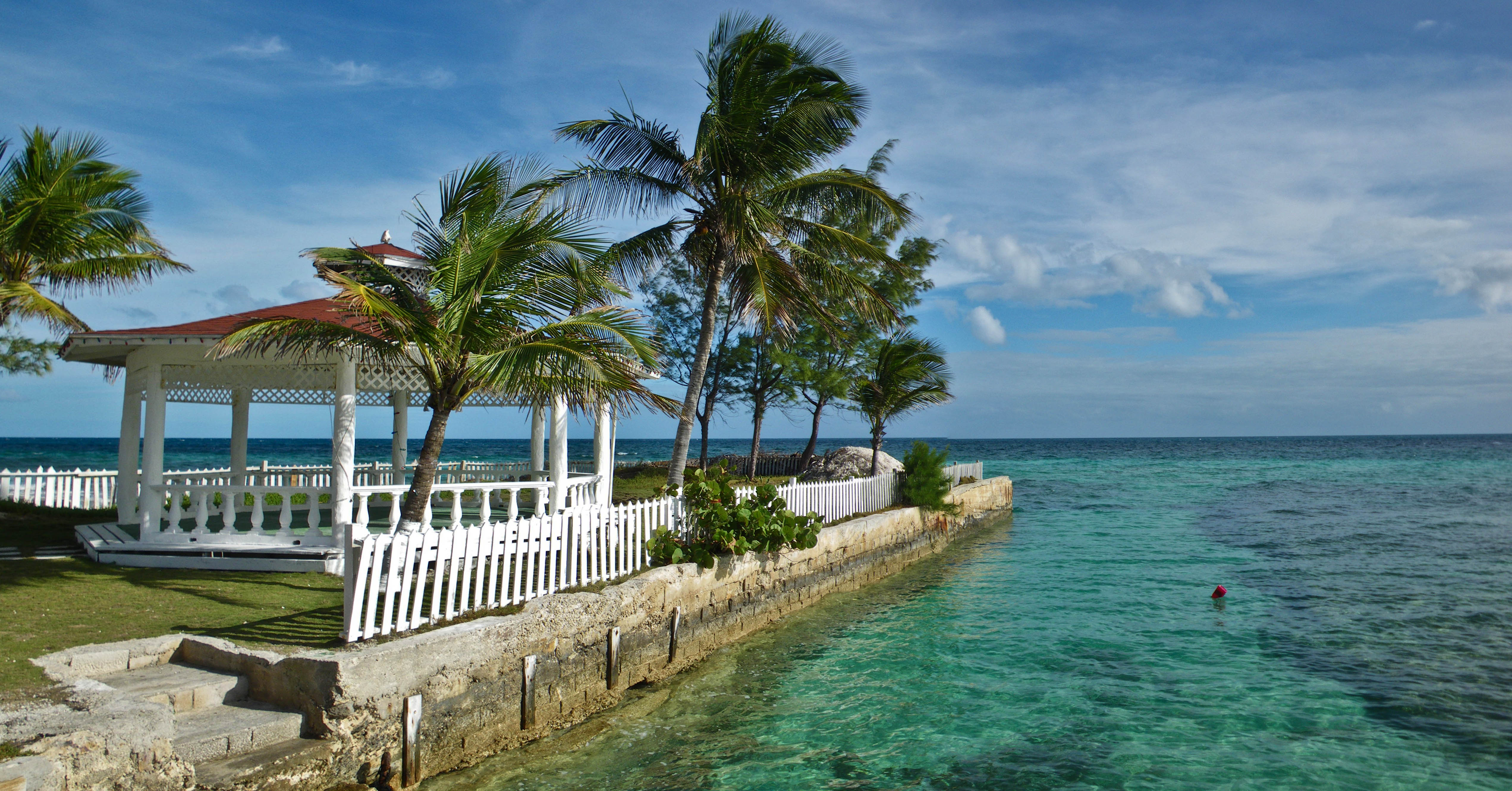 Pavilion on New Providence Island — in the Bahamas.